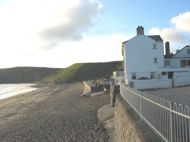 Traeth Aberdaron Beach Aberdaron has a pleasant sandy beach